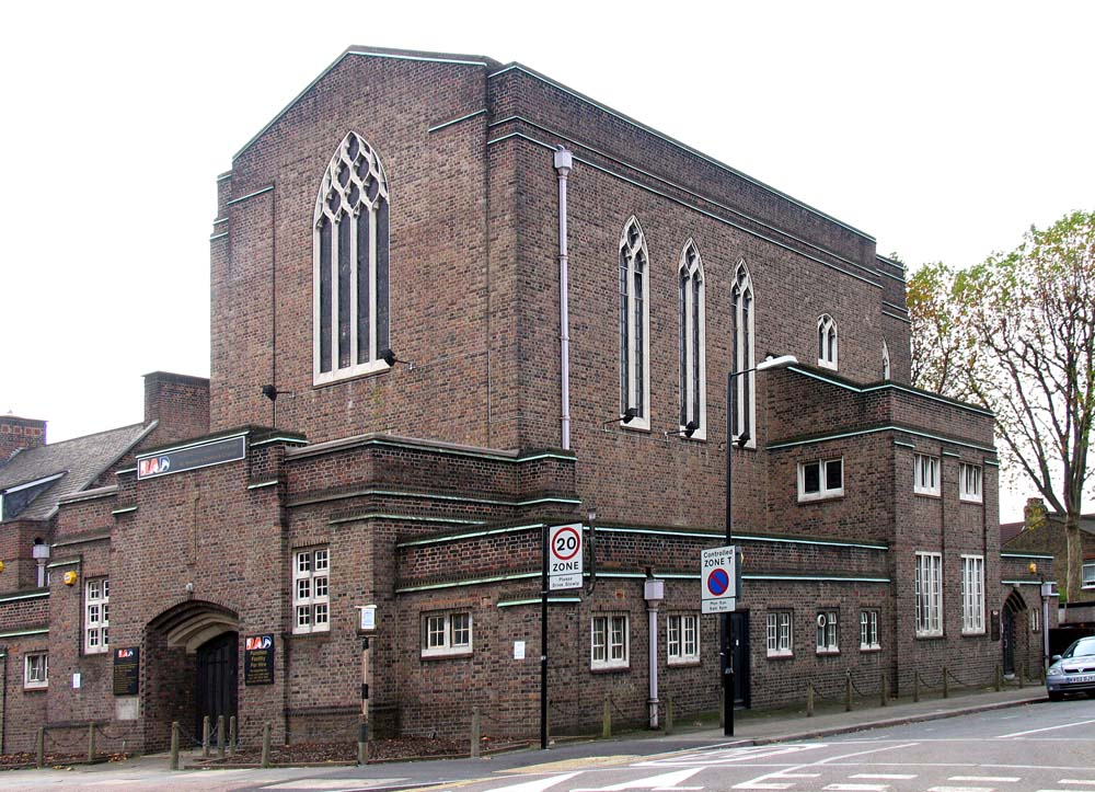 St Saviour's church and institute, Old Oak Road, Acton, London W3, seen from the northeast